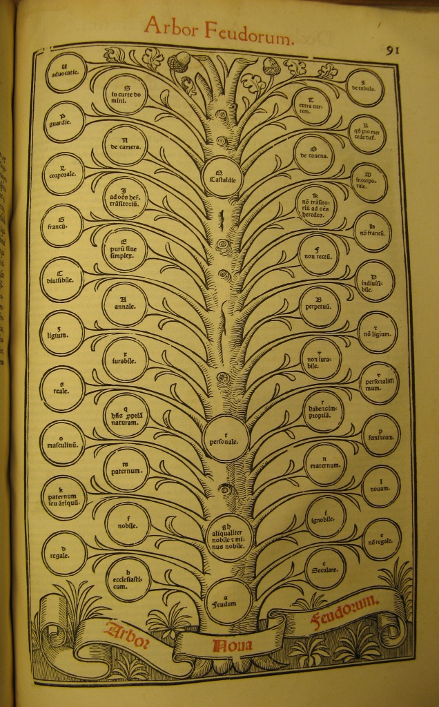 "Arbor feudorum" diagramming feudal rights, from a 1553 Lyon edition of Justinian's Novels, call no. ABCNY Ins7 1553 flat.